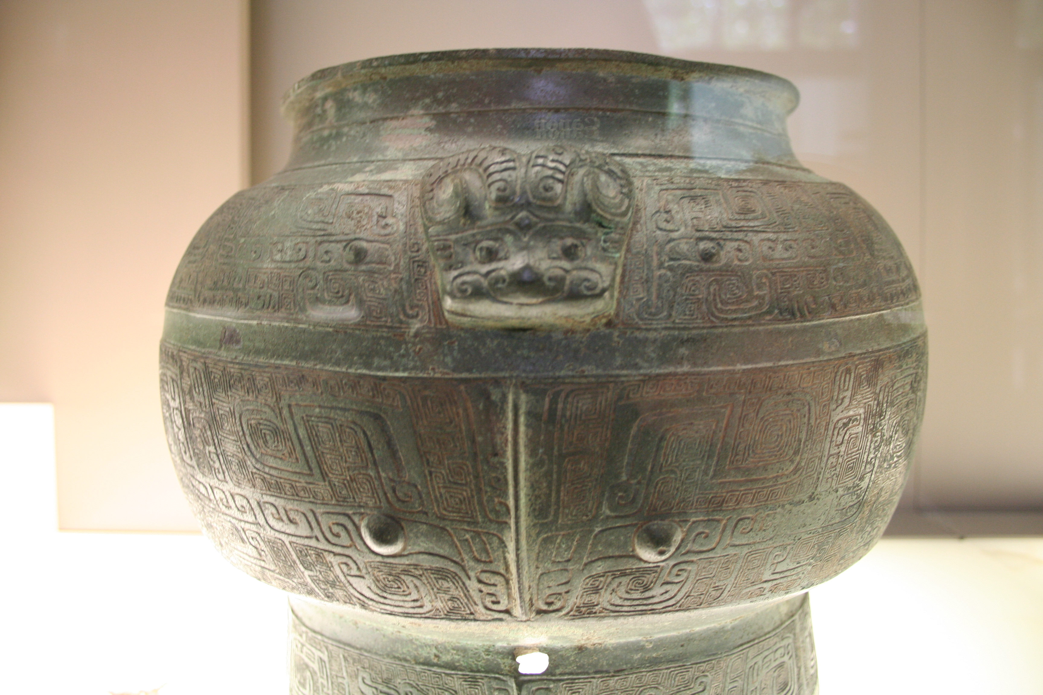 Cernuschi Museum, Paris, France.